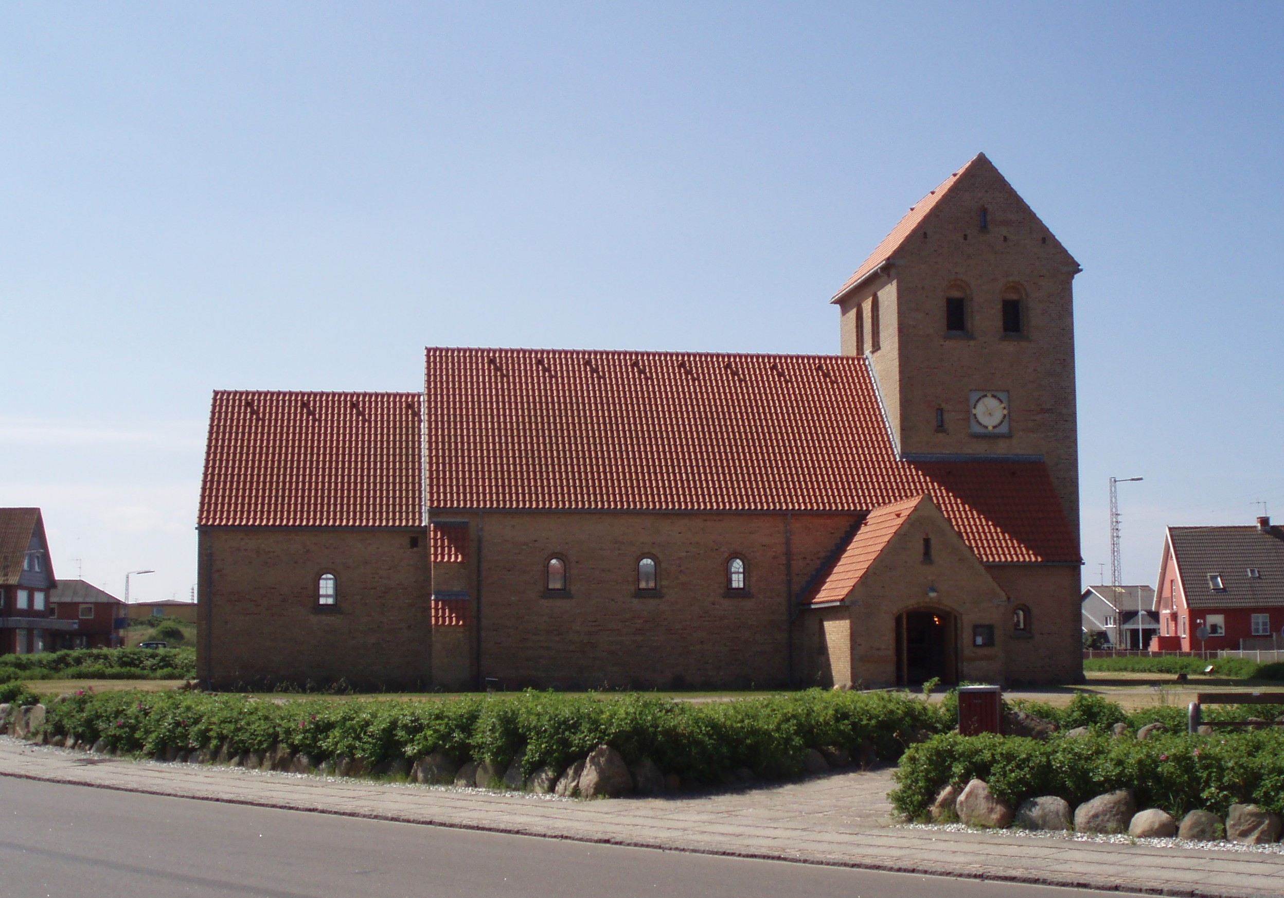 Helligåndskirken (Ringkøbing-Skjern Kommune) in Denmark